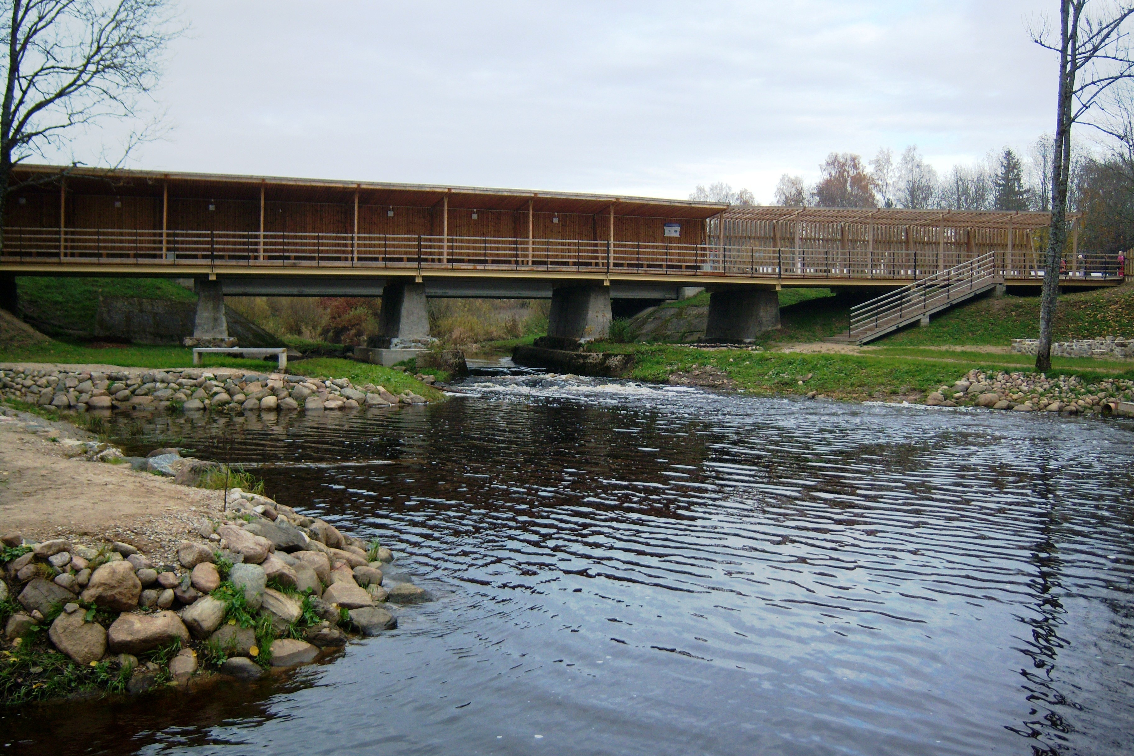 Žadvainiai, bridge over Jūra River, Rietavas district. Lithuania